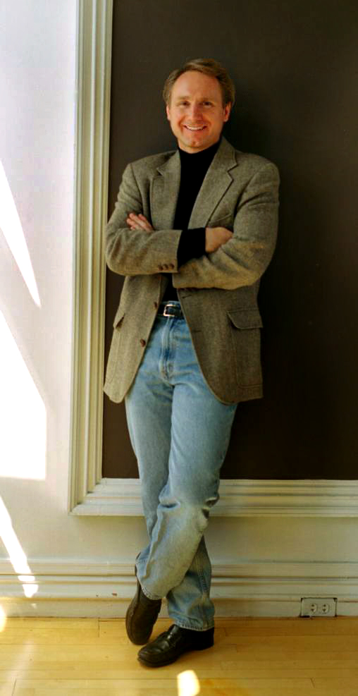 Dan Brown